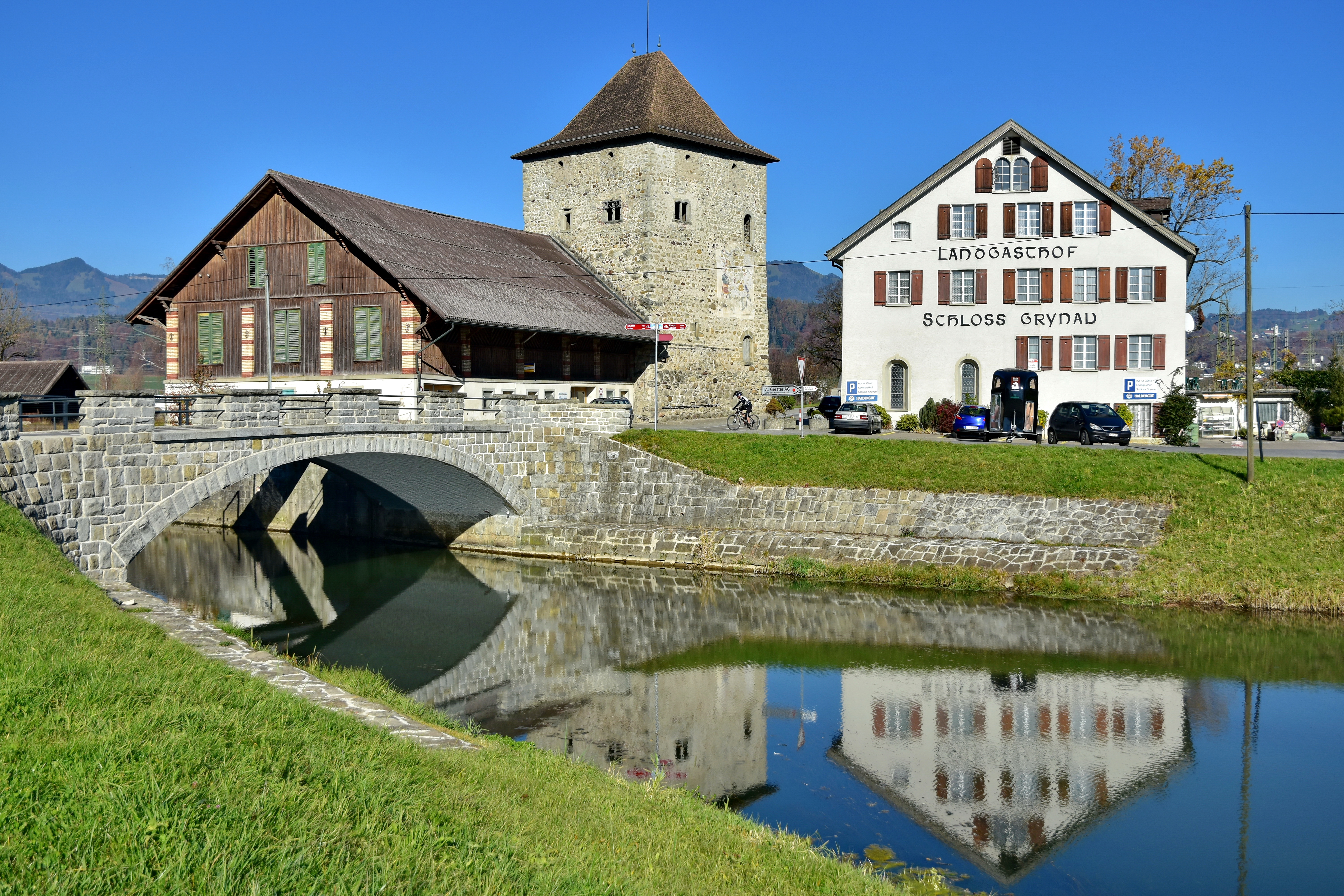 Grynau (Grinau or Schloss Grynau) is a castle tower, situated on the Linth canal in the Swiss municipality of Tuggen in the Canton of Schwyz, that was built by the House of Rapperswil in the early 13th century AD.